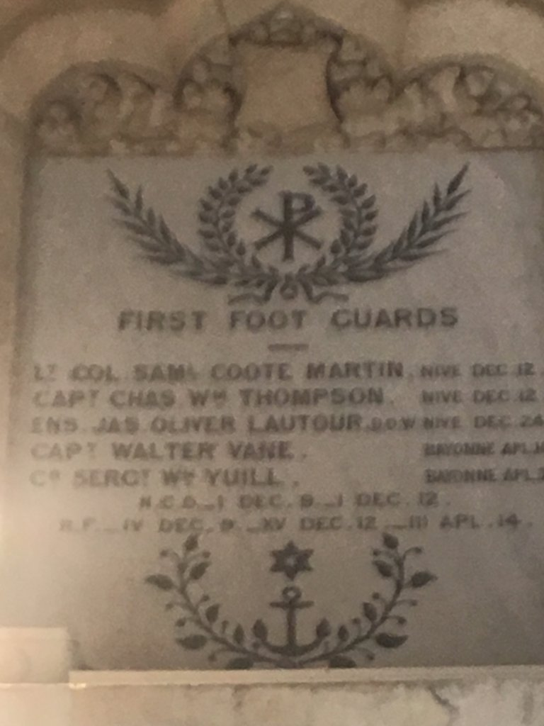 Memorial to the First Foot Guards at the former Anglican Church in Biarritz. Casualties of the Peninsular Wars